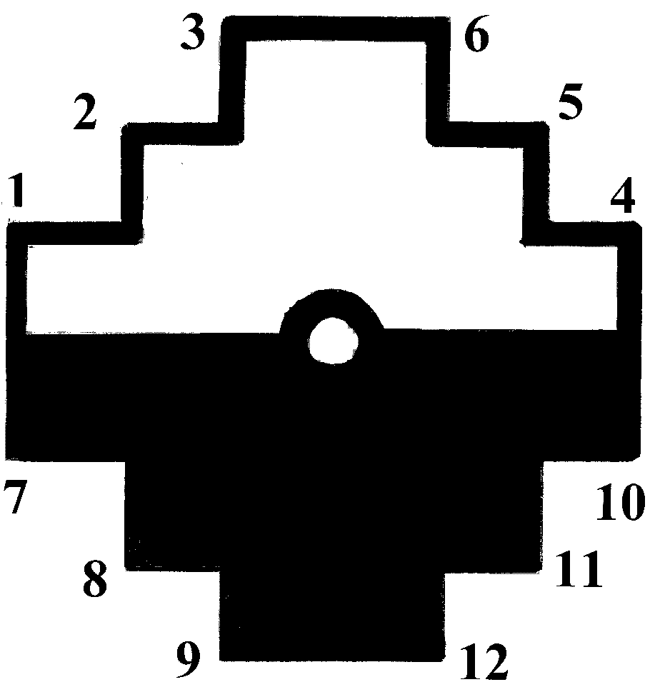 Chakana